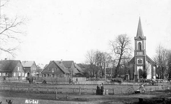 Lutheran church, Biržai, Lithuania